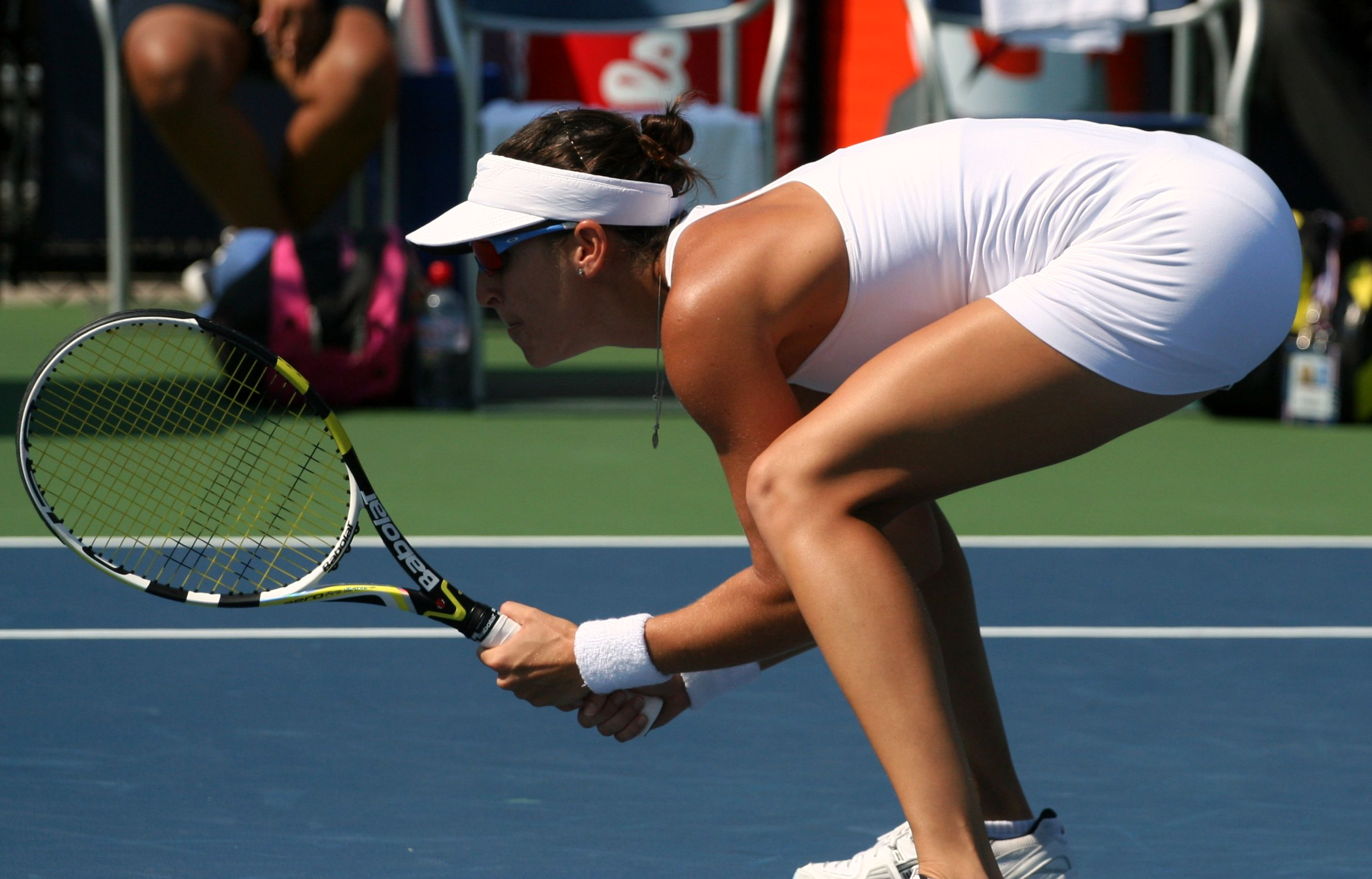 U.S. Open Friday, Sept. 2, 2011